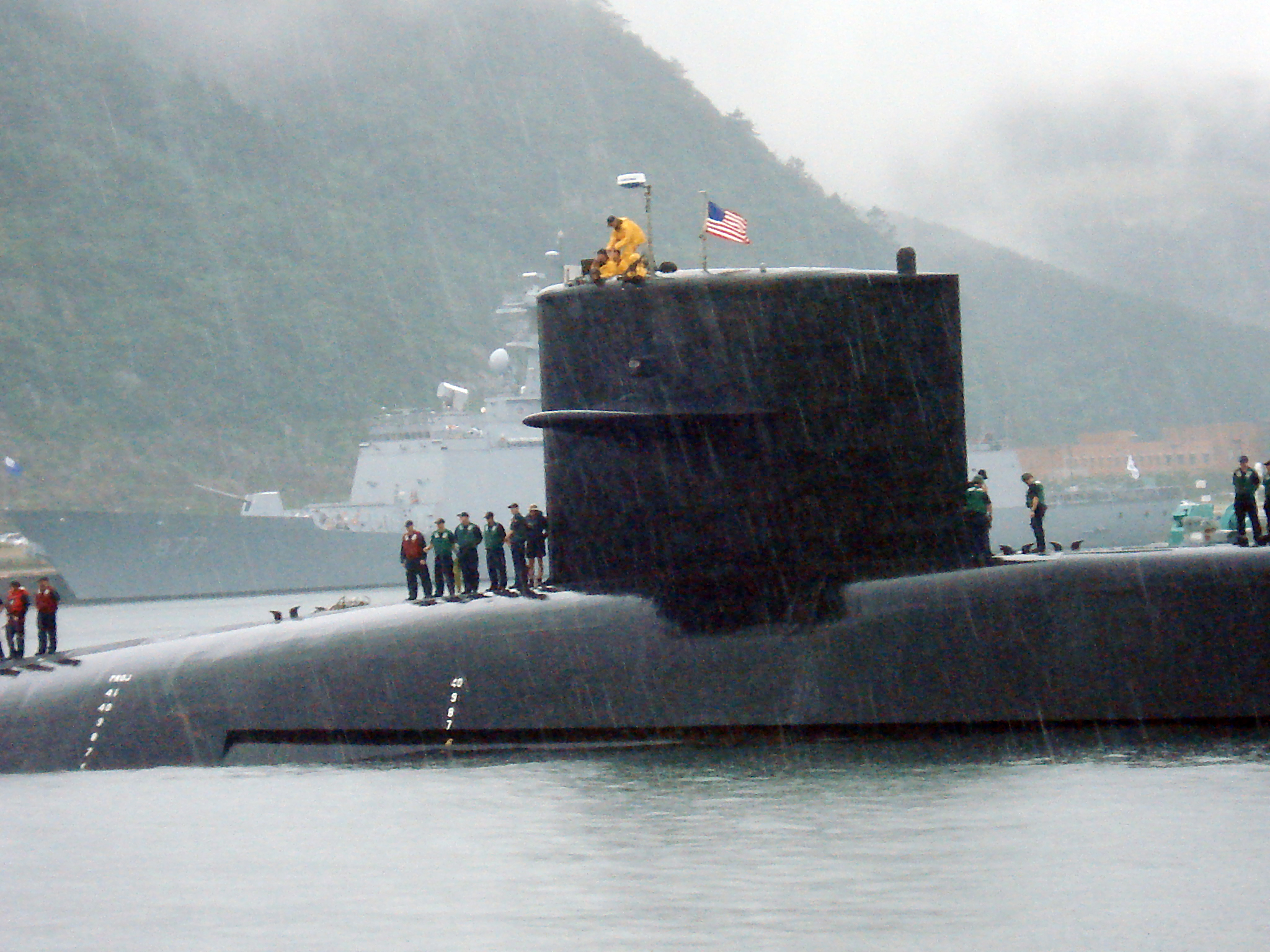 BUSAN, Republic of Korea (June 28, 2010) The guided-missile submarine USS Michigan (SSGN 727) passes the Republic of Korea navy destroyer ROKS Daejoyoung (DDGHM 977) as she arrives at Busan Naval Operations Base. Michigan is conducting a routine port visit in Busan. (U.S. Navy photo by Cmdr. Dale Bopp/Released)